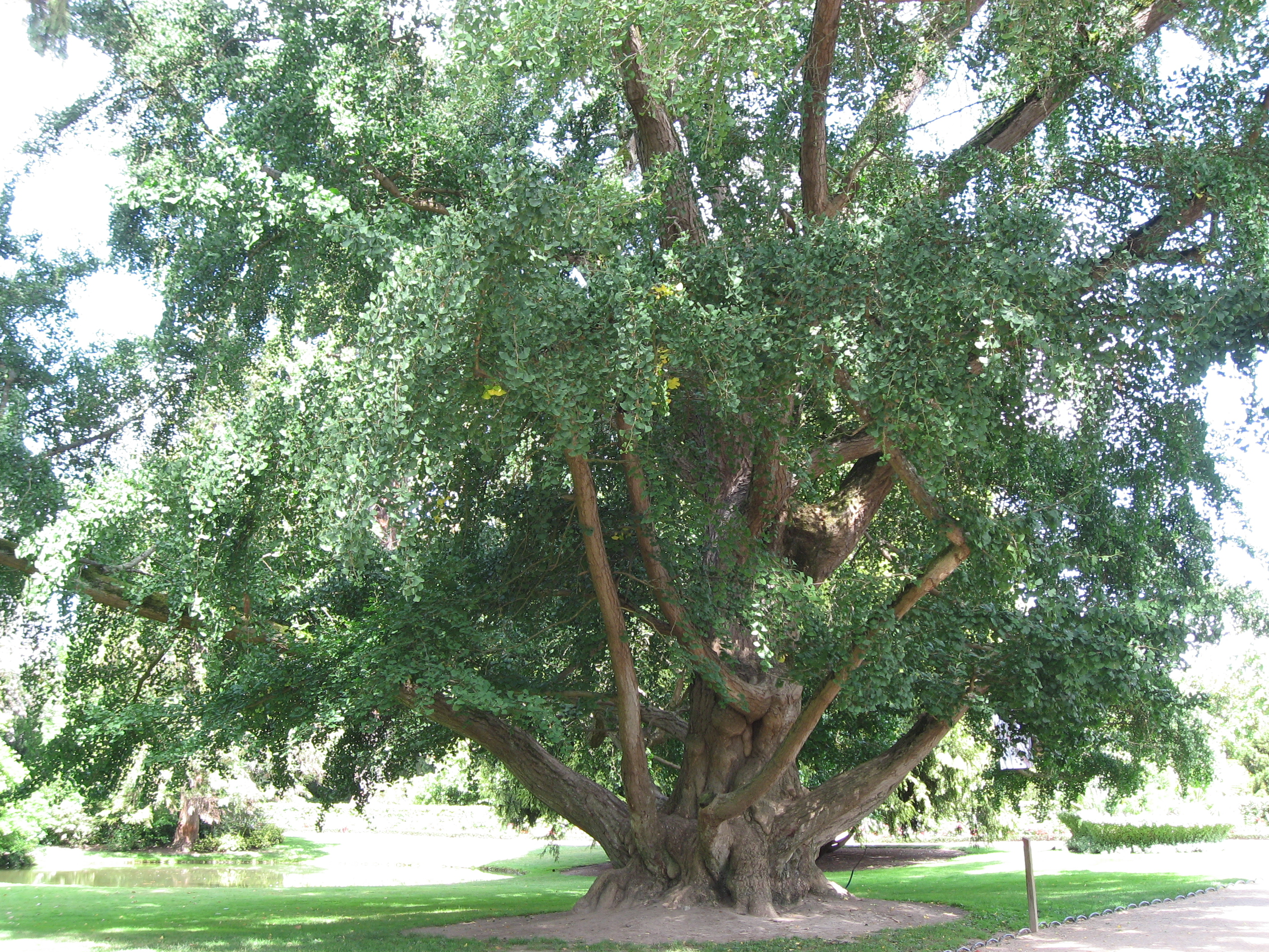 Ginkgo biloba in Jardin Botanique de Tours Map: 47° 23' 16" N 0° 40' 0" E